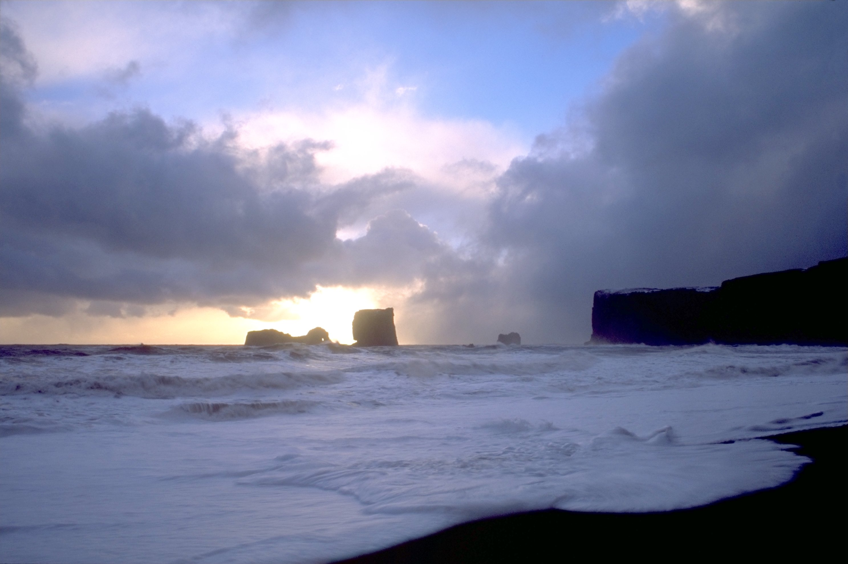 Dyrhólaey in Winter, Iceland Photo was taken using the following technique: Film: Fuji Velvia Lens: 2.0/20 Filter: Body: Minolta Dynax 7 Support: Manfrotto 190B Image with Information in English Bild mit Informationen auf Deutsch